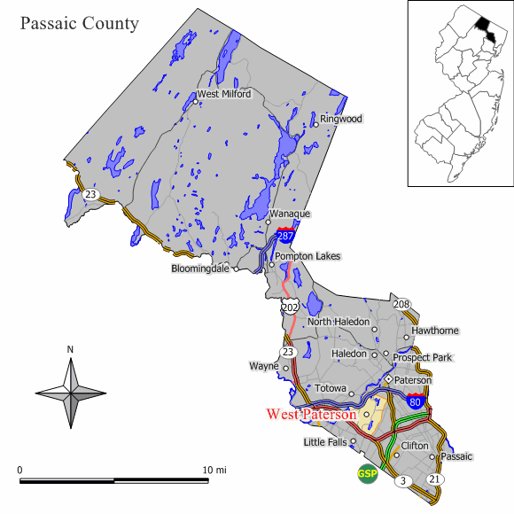 Map of Woodland Park, New Jersey (formerly named West Paterson) in Passaic County, New Jersey.